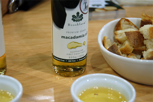 A bottle and dish of macadamia oil. Photo taken at the NASFT 52nd New York Summer Fancy Food Show in New York City, New York, United States, with a Nikon D50 digital camera.